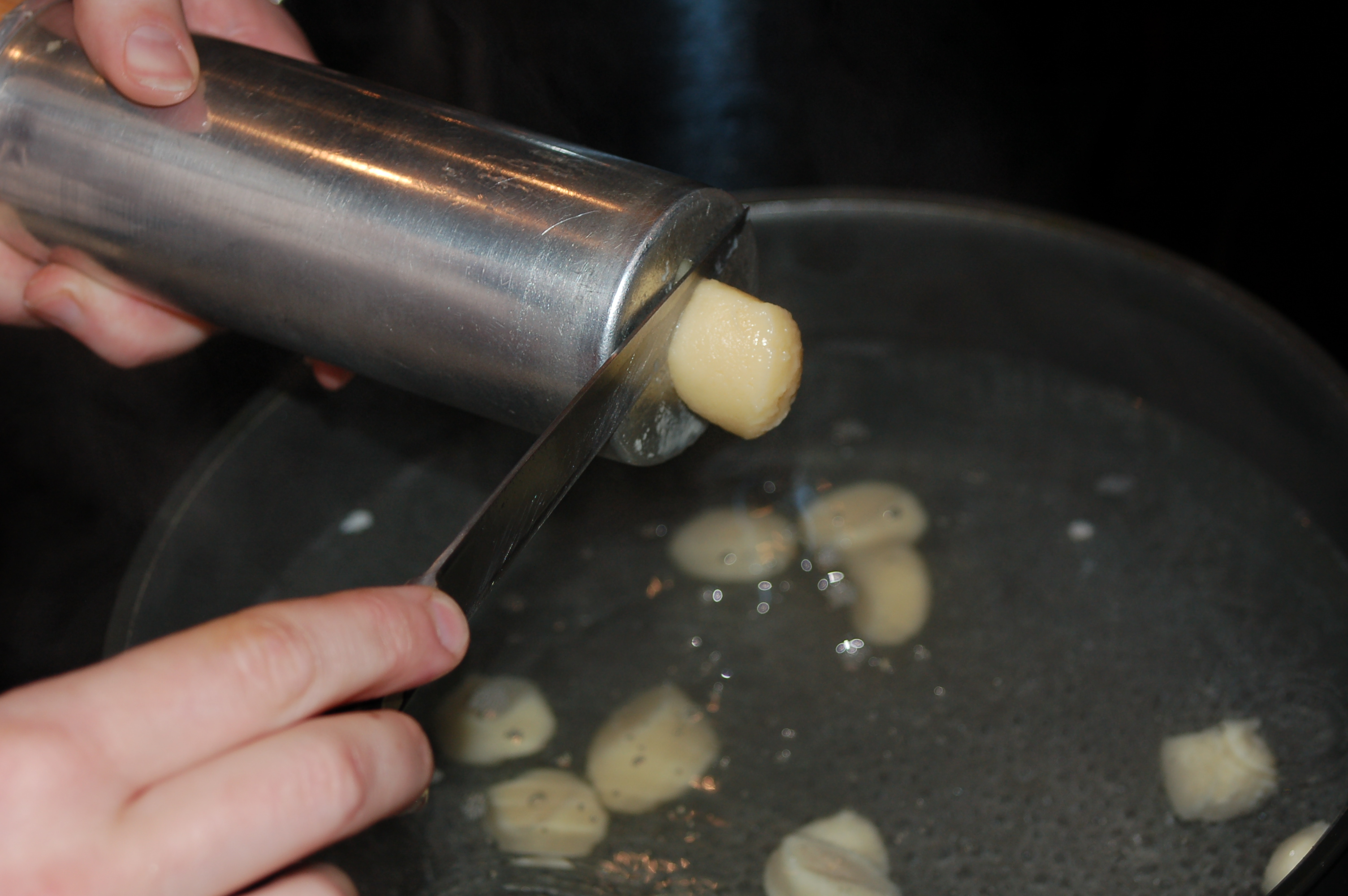 Photo of a kitchen equipment used to make meat balls and balls of flour dough. Used to be common in Denmark. Demonstration of usage.